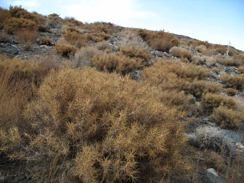 Cheheltan Mountain's native desert vegetation, Chasht in Balochistan, Nimruz Province, southern Afghanistan